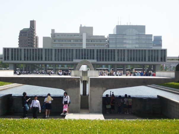 The Hiroshima Peace Memorial Museum